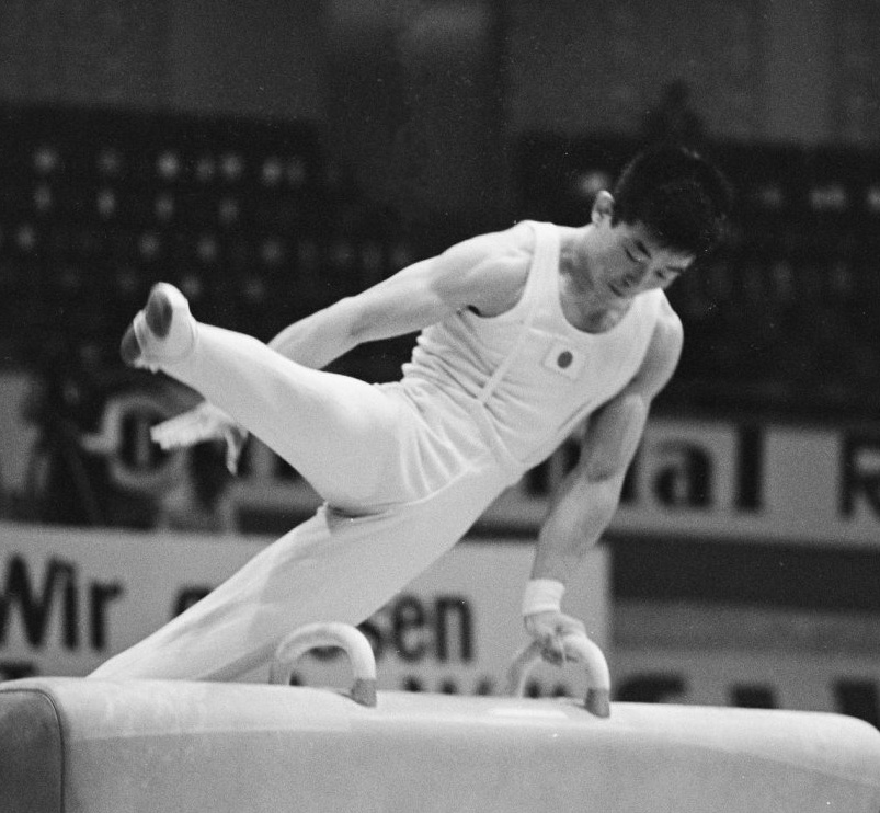 Akinori Nakayama at the 1966 World Championships